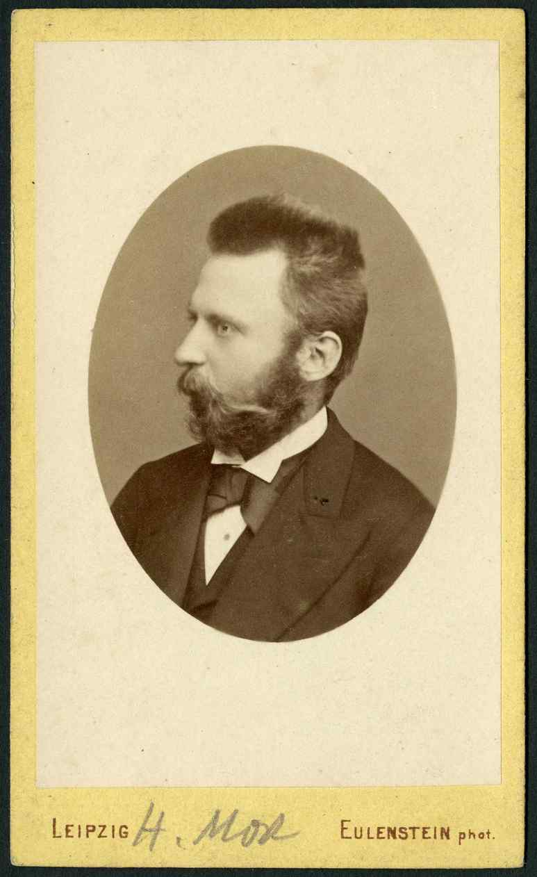 Portrait of Johann Most taken in Leipzig, Germany